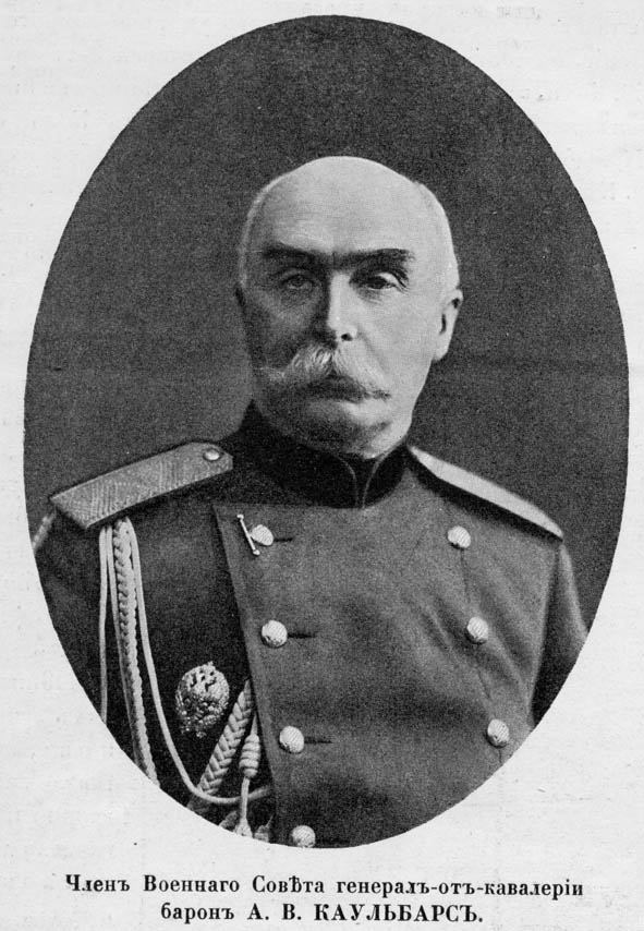 Russian General of the Cavalry Baron Alexander Vasilyevich von Kaulbars